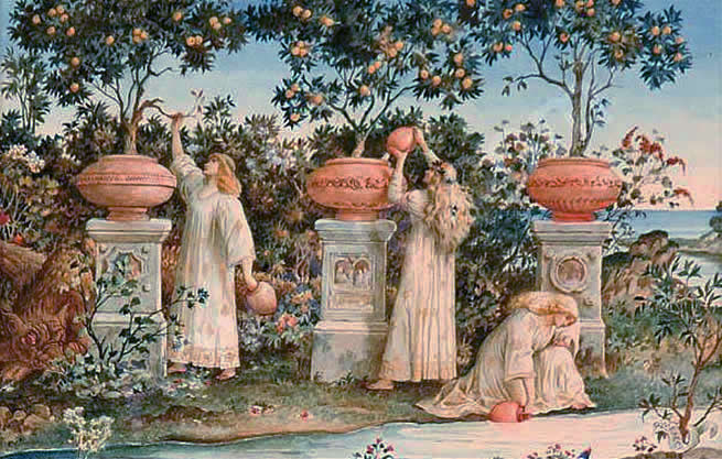 The Garden of Hesperides (Drawings & Watercolours)